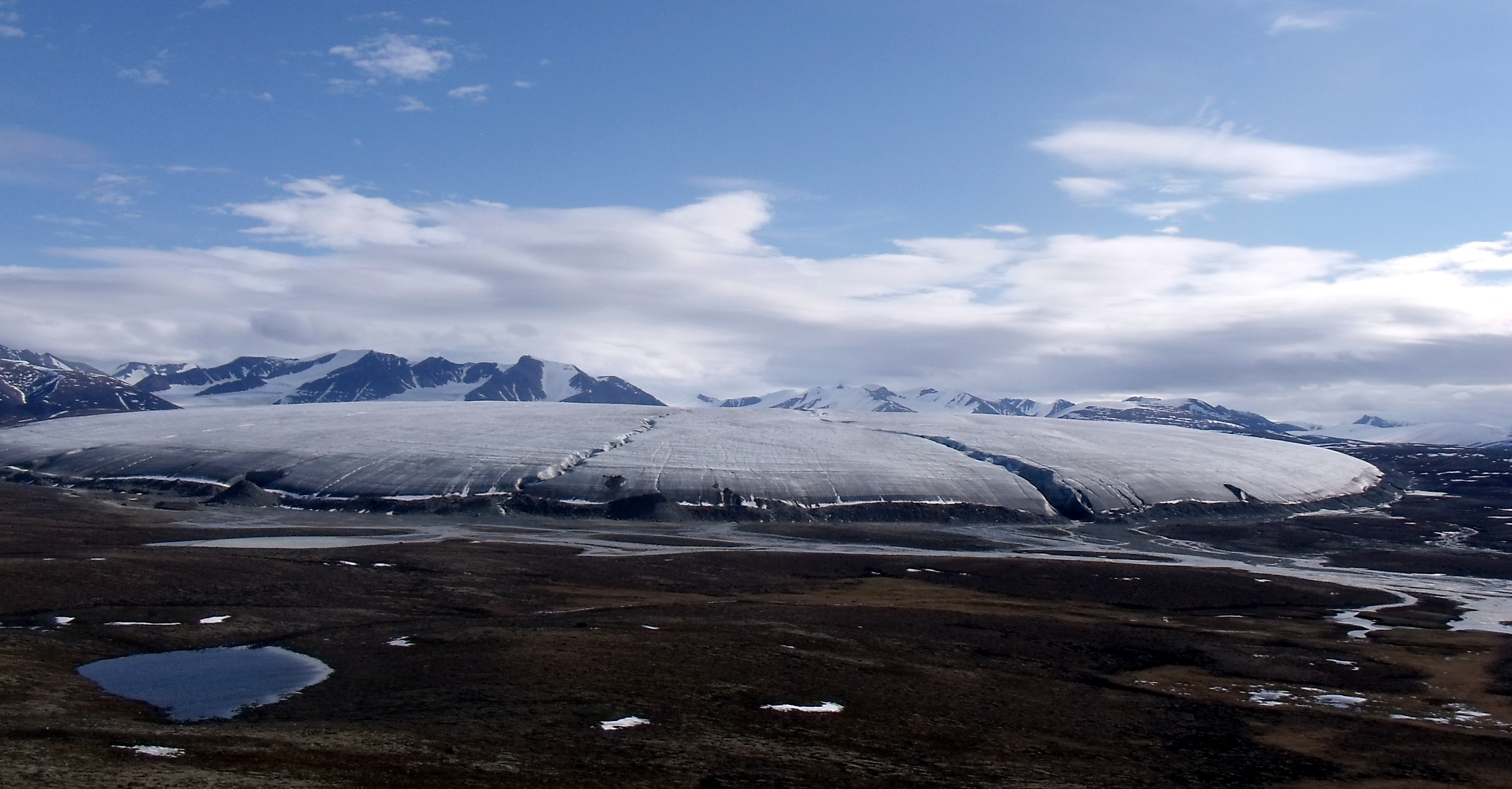 A much larger mothership than before. This mountain glacier is one of many streams of ice coming down from the interior ice cap on top of Byam Martin Mtns. View large to see this 3 mile wide tongue's terminal moraine. Pond Inlet is the nearest community to Sirmilik National Park. For those folks looking for the most scenic places to visit in Canada's far north, I am one happy camper who will point you to landscape painter Cory Trepanier's video "Into the Arctic II".